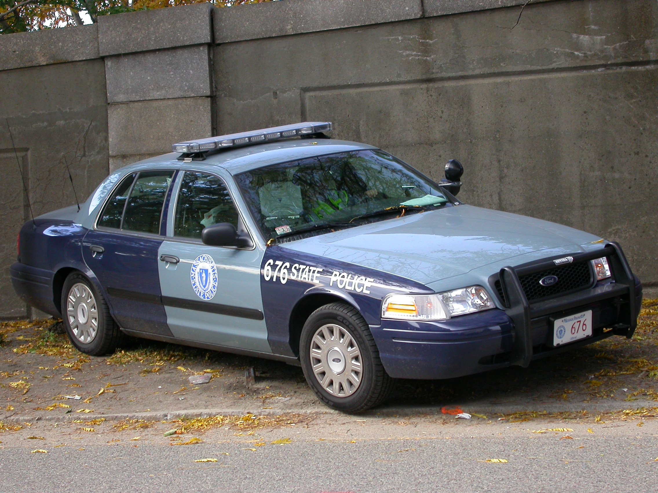 2005 Ford Crown Victoria Massachusetts State Police